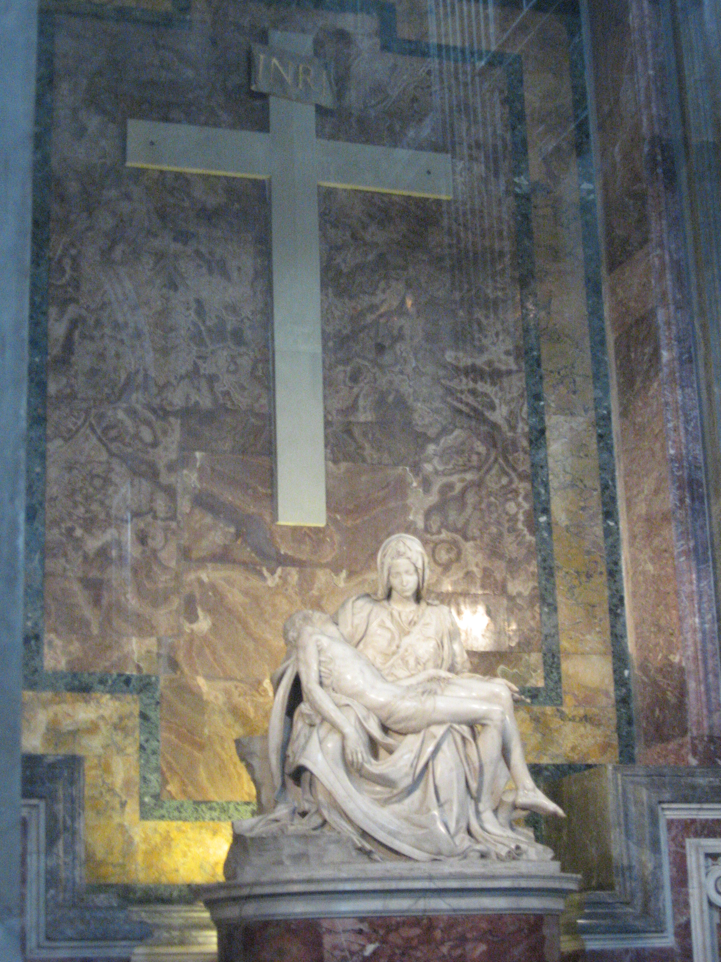 Michaelangelo's Pieta and the cross behind it in St. Peter's Basilica